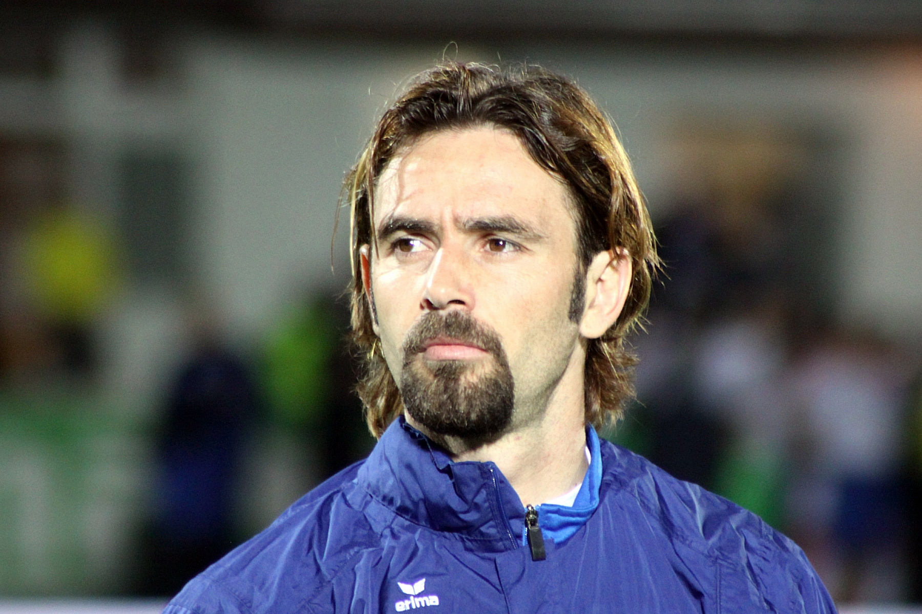 Diego Viana - SC Magna Wiener Neustadt